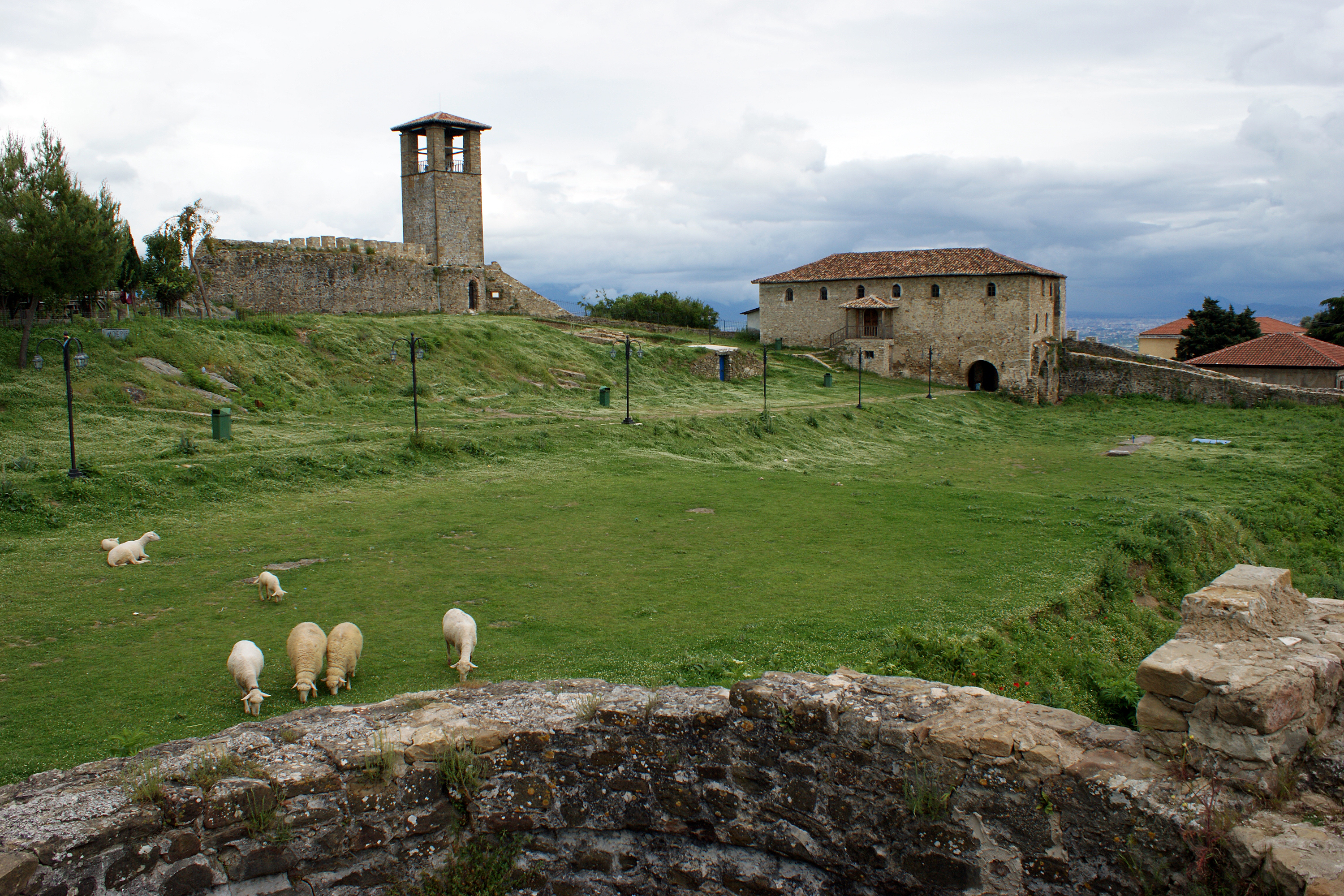 Castle von Preza, Albania – from the West tower to the clock tower in the east with the gatehouse/mosque in the center.